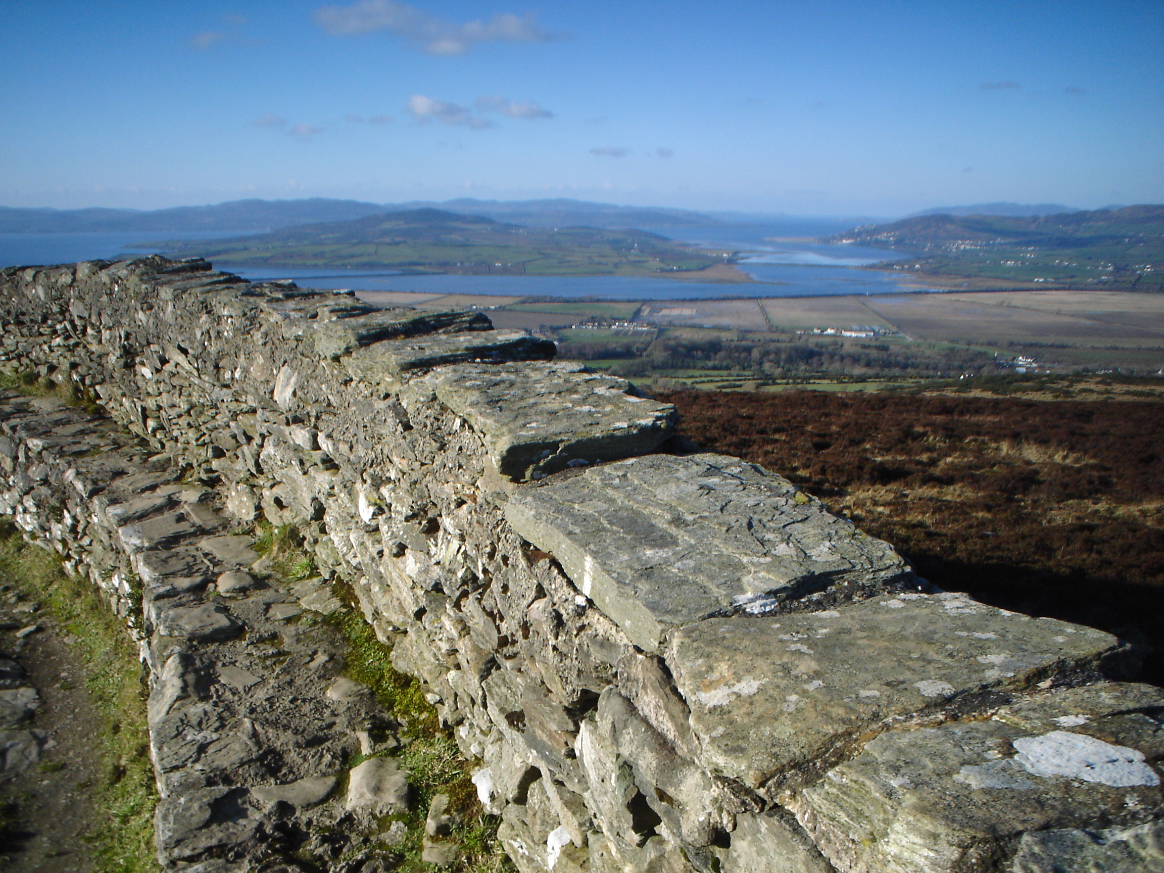 A view from Grianan of Aileach, County Donegal, Ireland